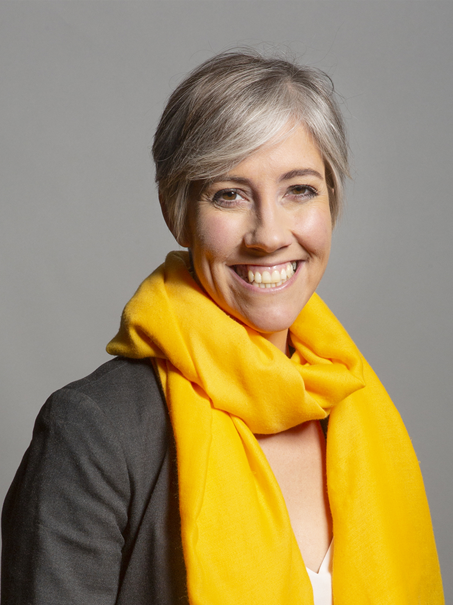 Official portrait of Daisy Cooper MP 3×4 portrait of Daisy Cooper